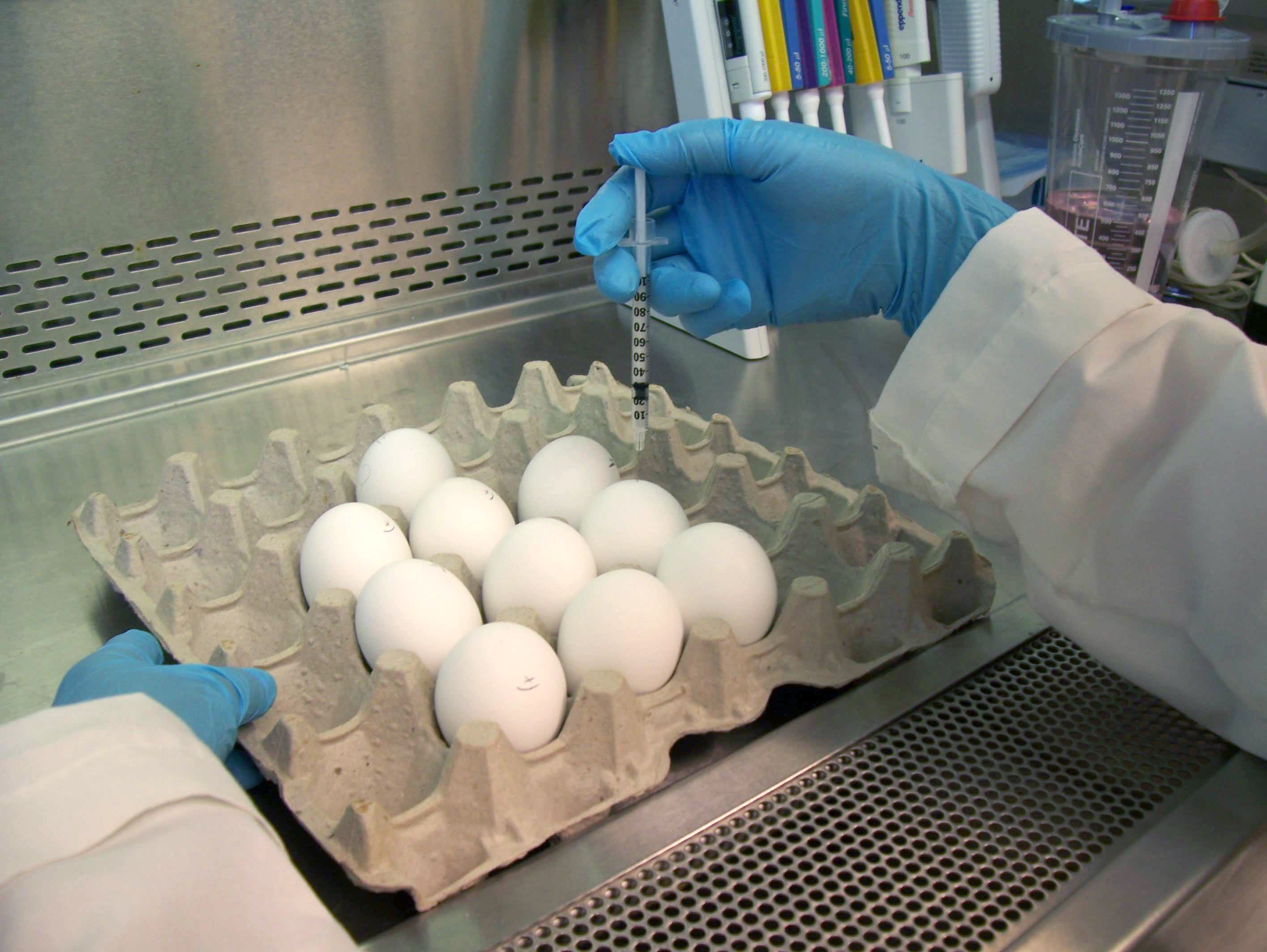 An FDA laboratory worker injects an influenza virus into an egg, where it will grow before being harvested—one of the many complex steps involved in creating a traditional flu vaccine. To learn more about where the science is going, read this FDA Consumer Update: • The Evolution, and Revolution, of Flu Vaccines This photo is free of all copyright restrictions and is available for use and redistribution without permission. Credit to the U.S. Food and Drug Administration is appreciated but not required. Privacy and use information